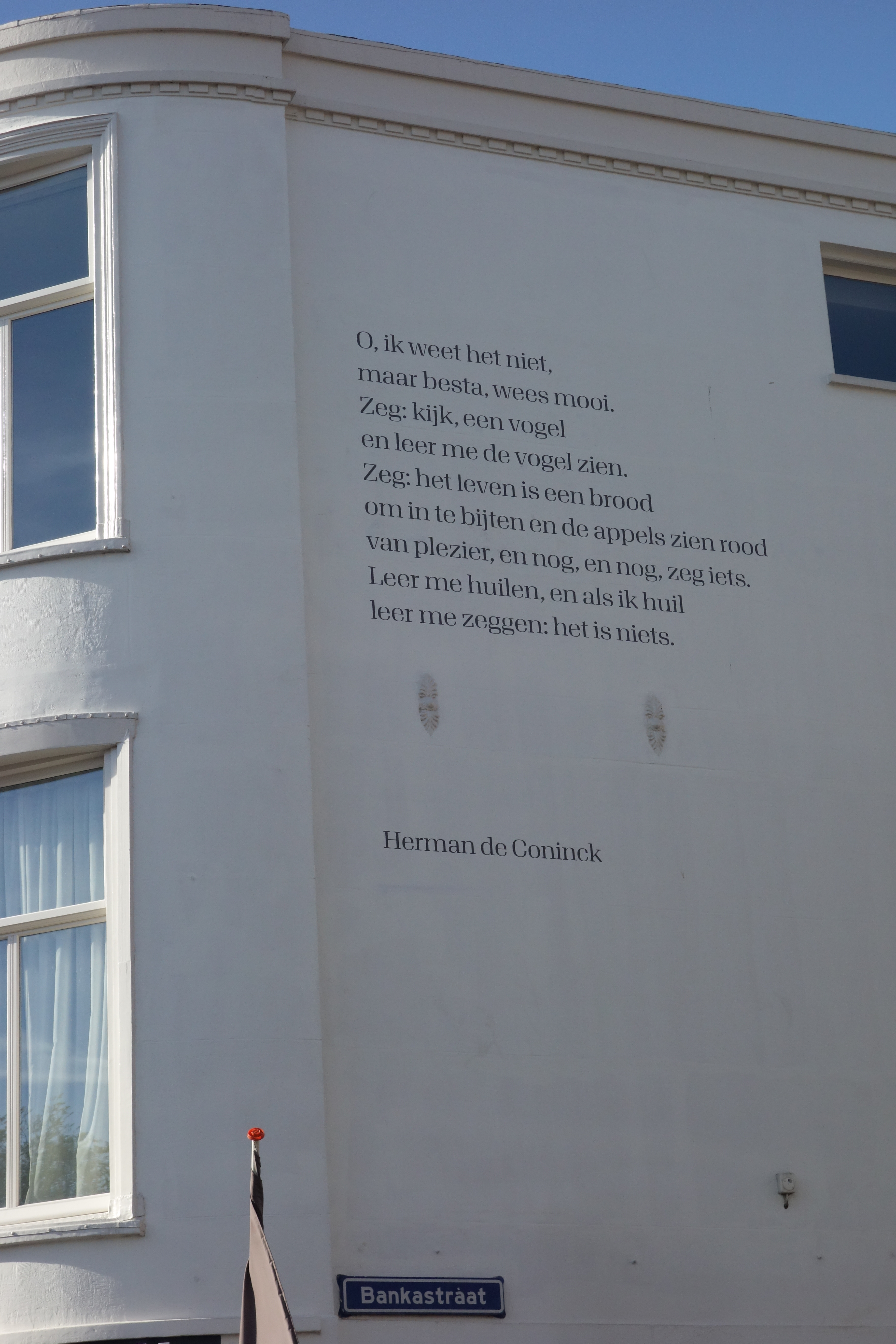 Poem 'O, ik weet het niet' by Belgian poet Herman De Coninck on a wall in the Bankastraat in The Hague